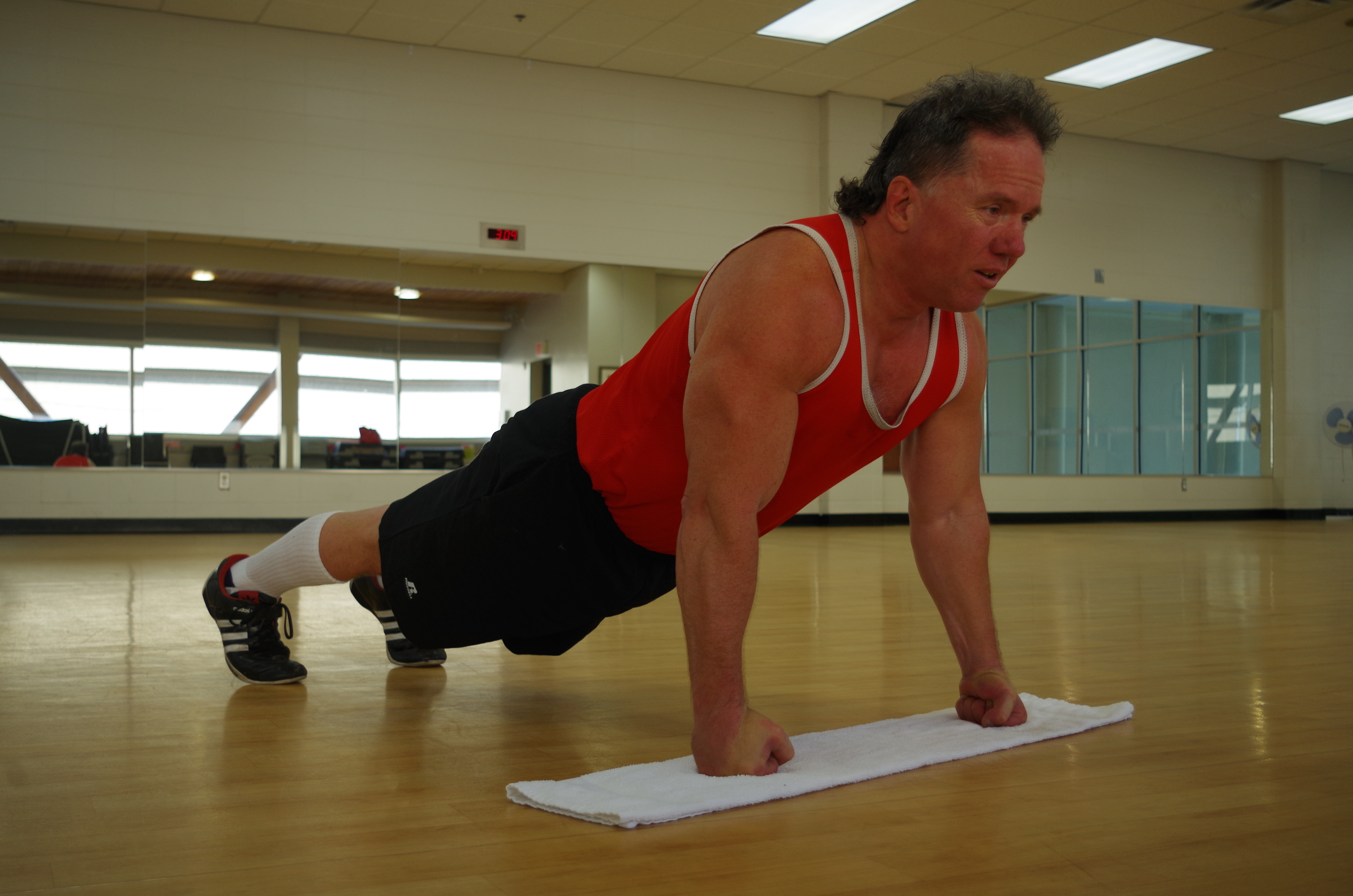 Doug Pruden doing knuckles push ups in Edmonton (2015)